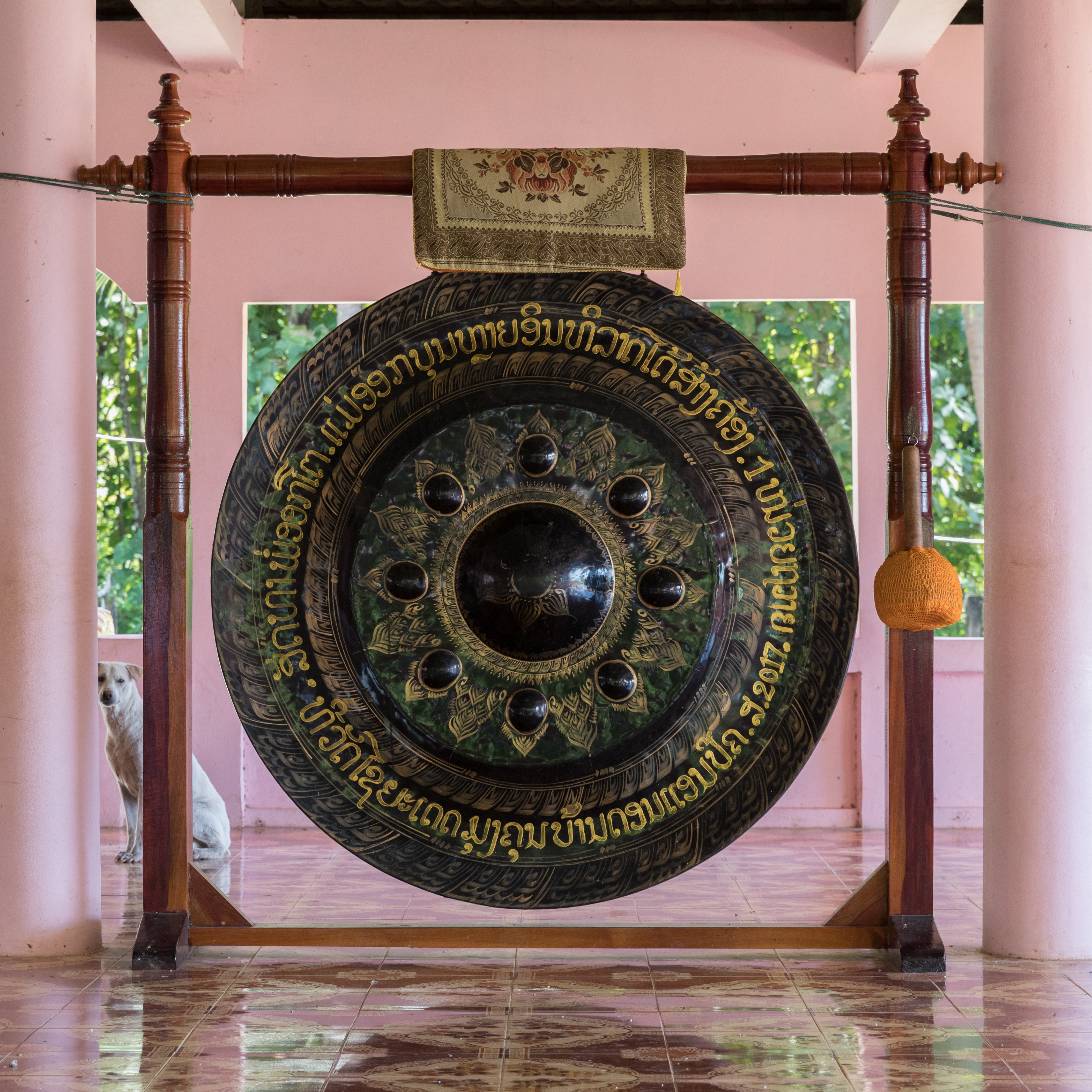 Big gong of the temple of Don An, Si Phan Don, Laos.